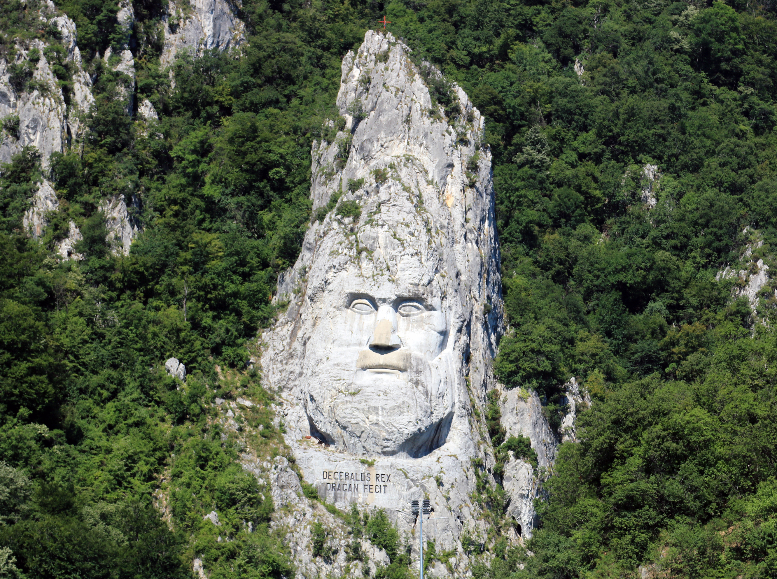 Rock sculpture of Decebalus